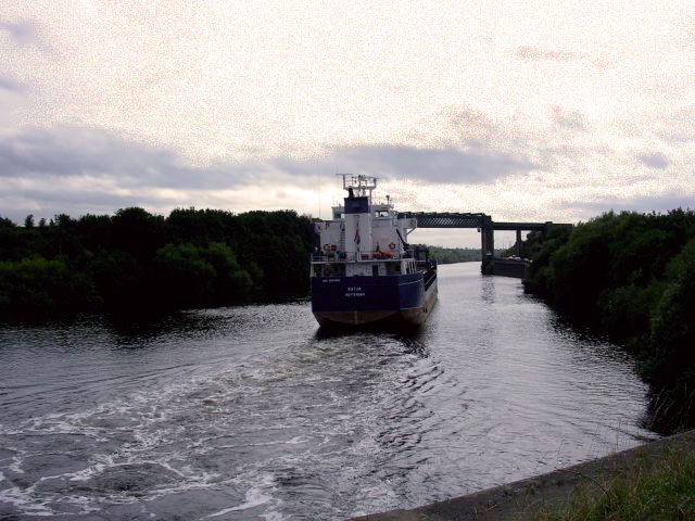 Movement on the Manchester Ship Canal This vessel is heading into this square as it makes for Liverpool and the sea.